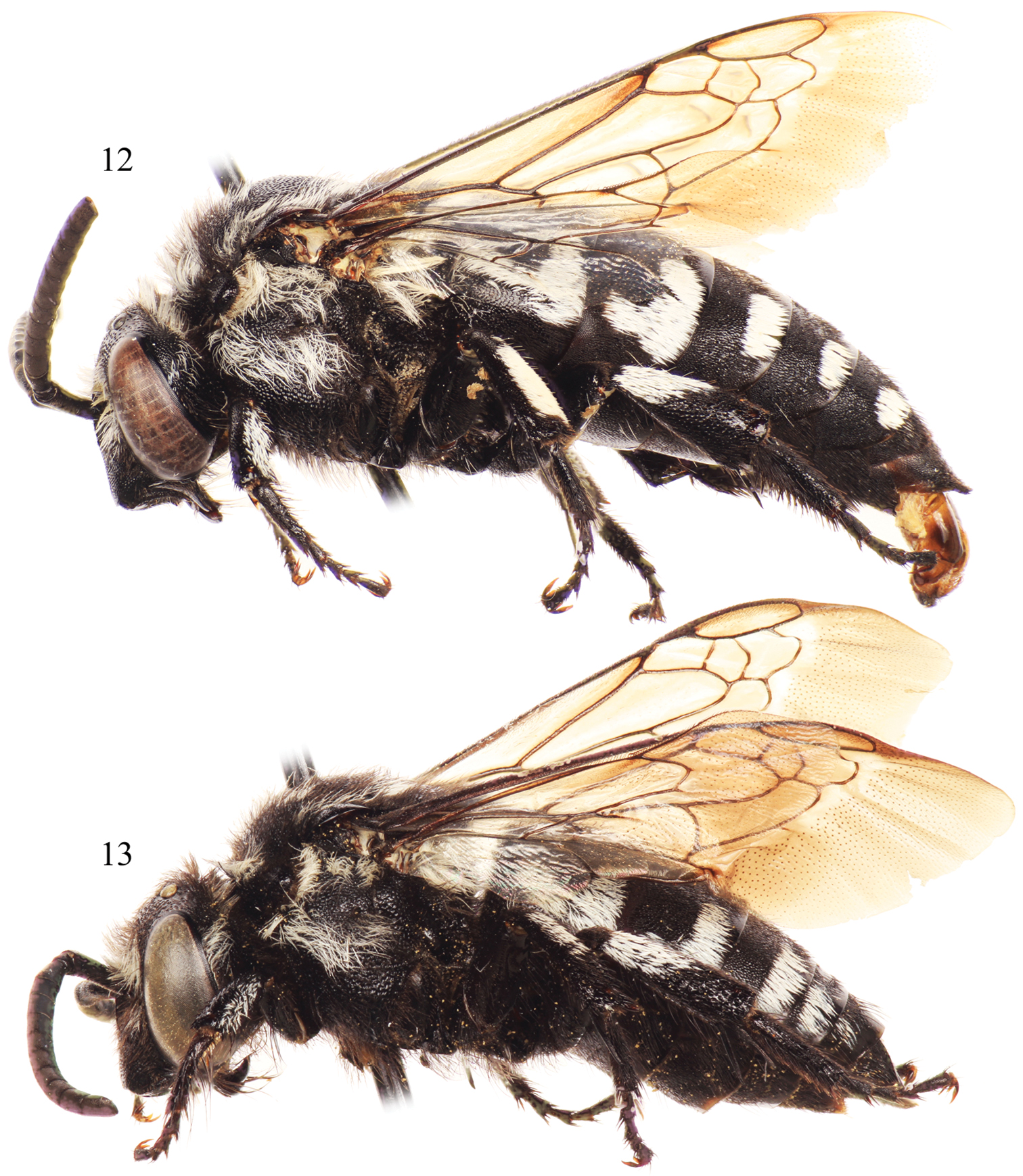 Lateral habitus of Thyreus batelkai from Santo Antão. 12 Male 13 Female.